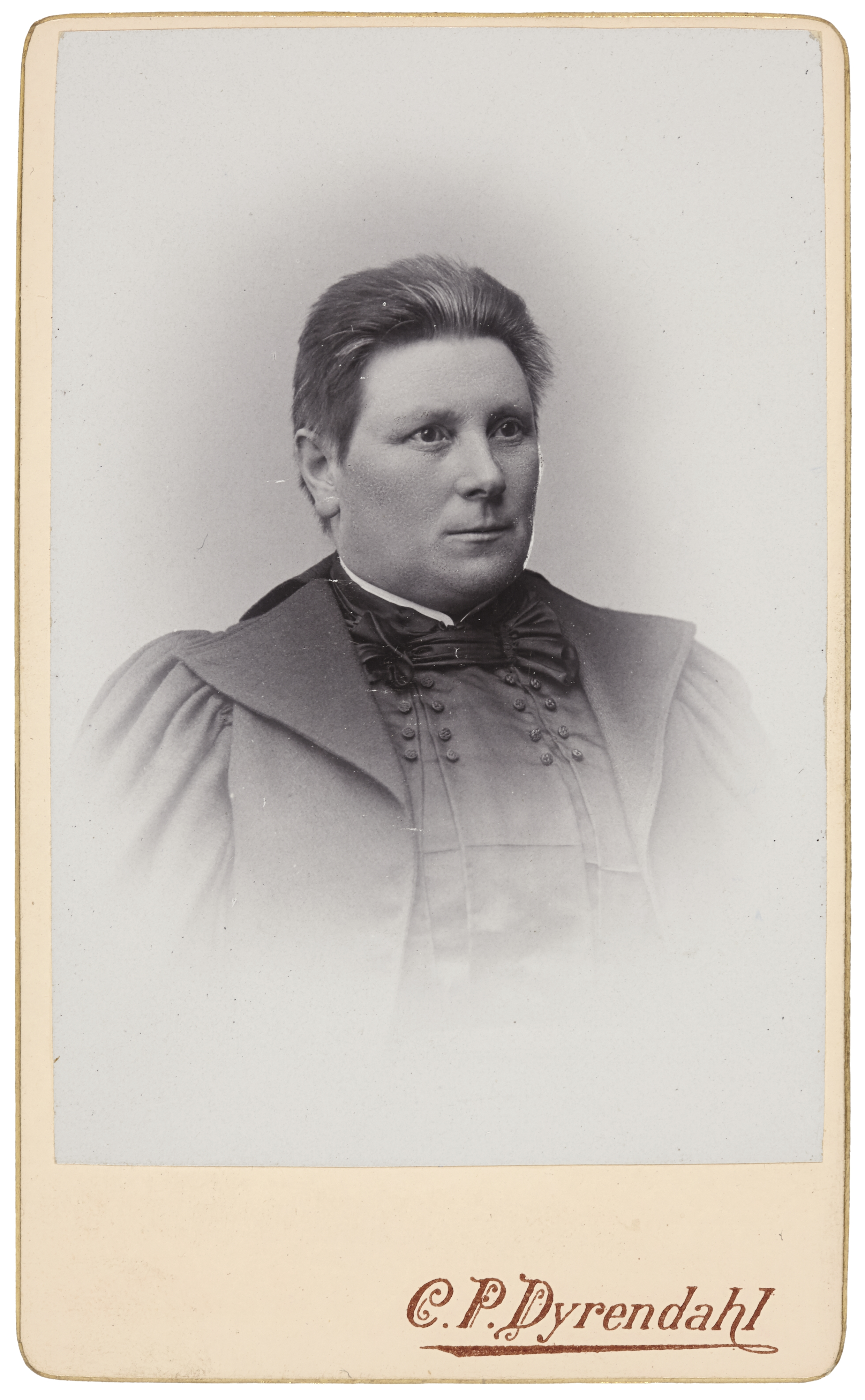 Lucina Hagman in the early 1900s.